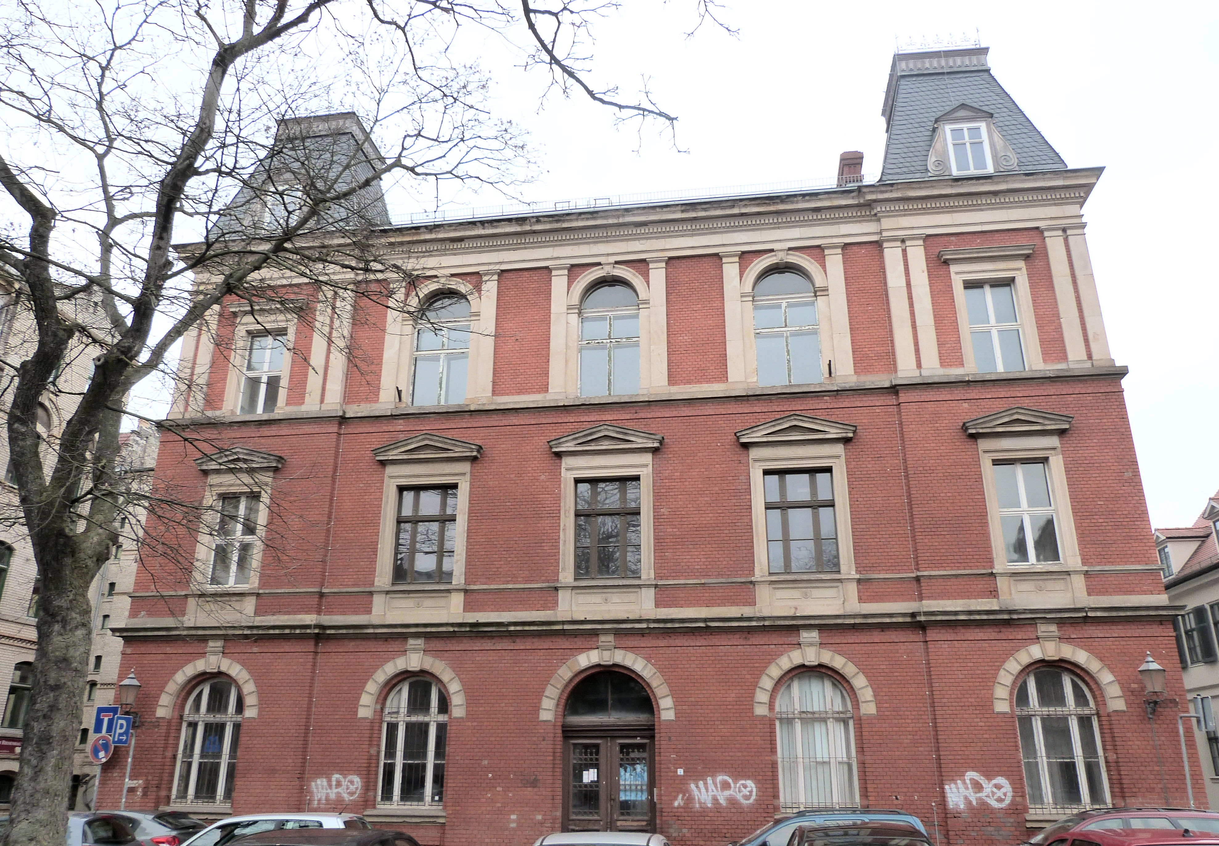 House No. 12, Großer Berlin, Halle (Saale)